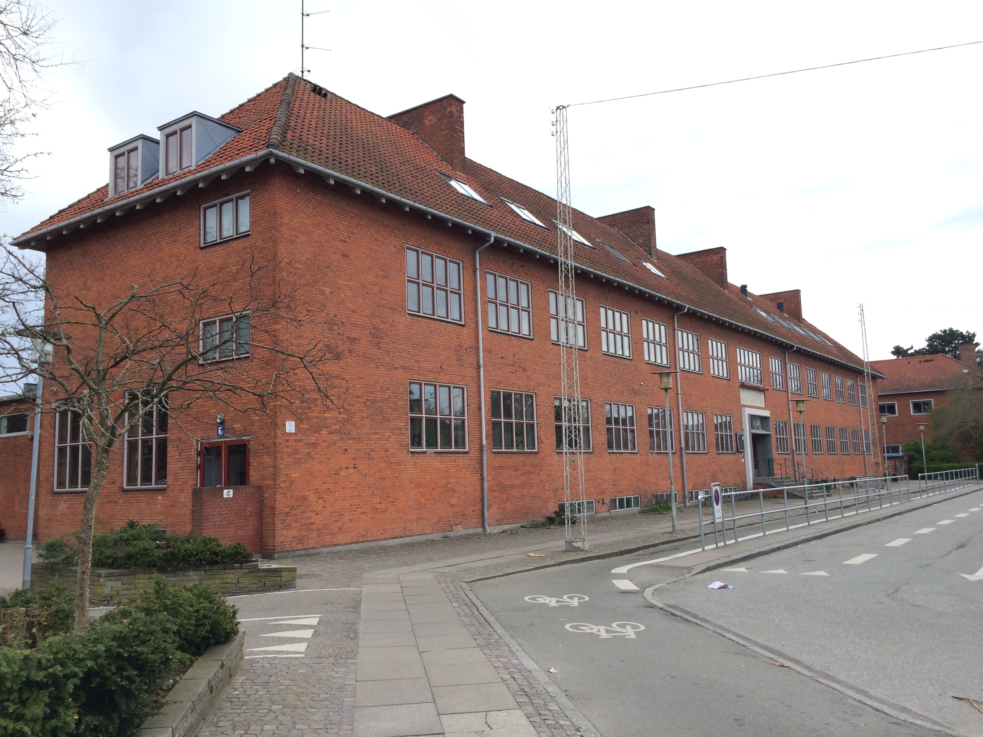 Korsvejens Skole seen from Tårnbyvej in 2017